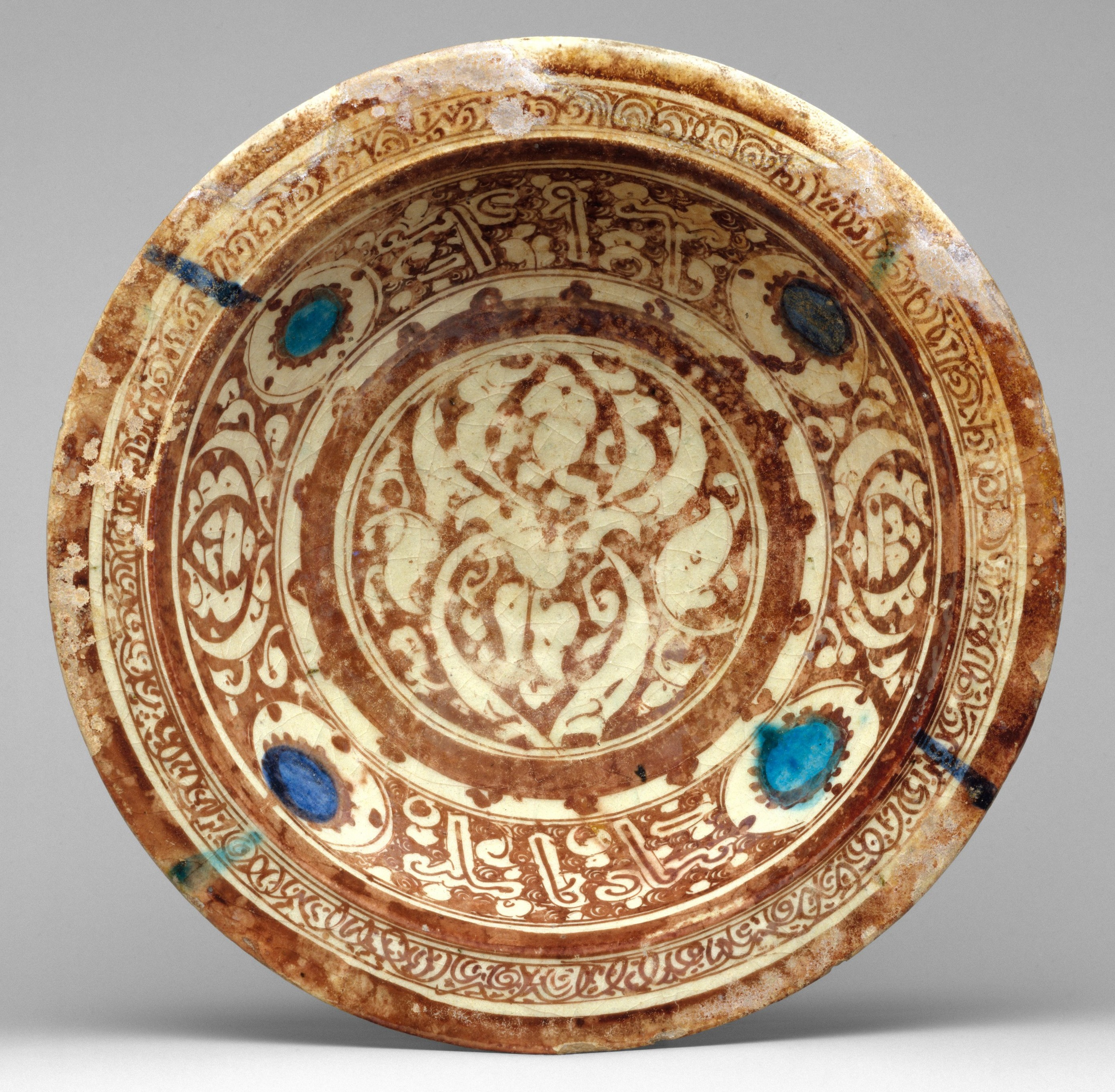 Bowl; Ceramics, lustreware, Raqqa, Syria